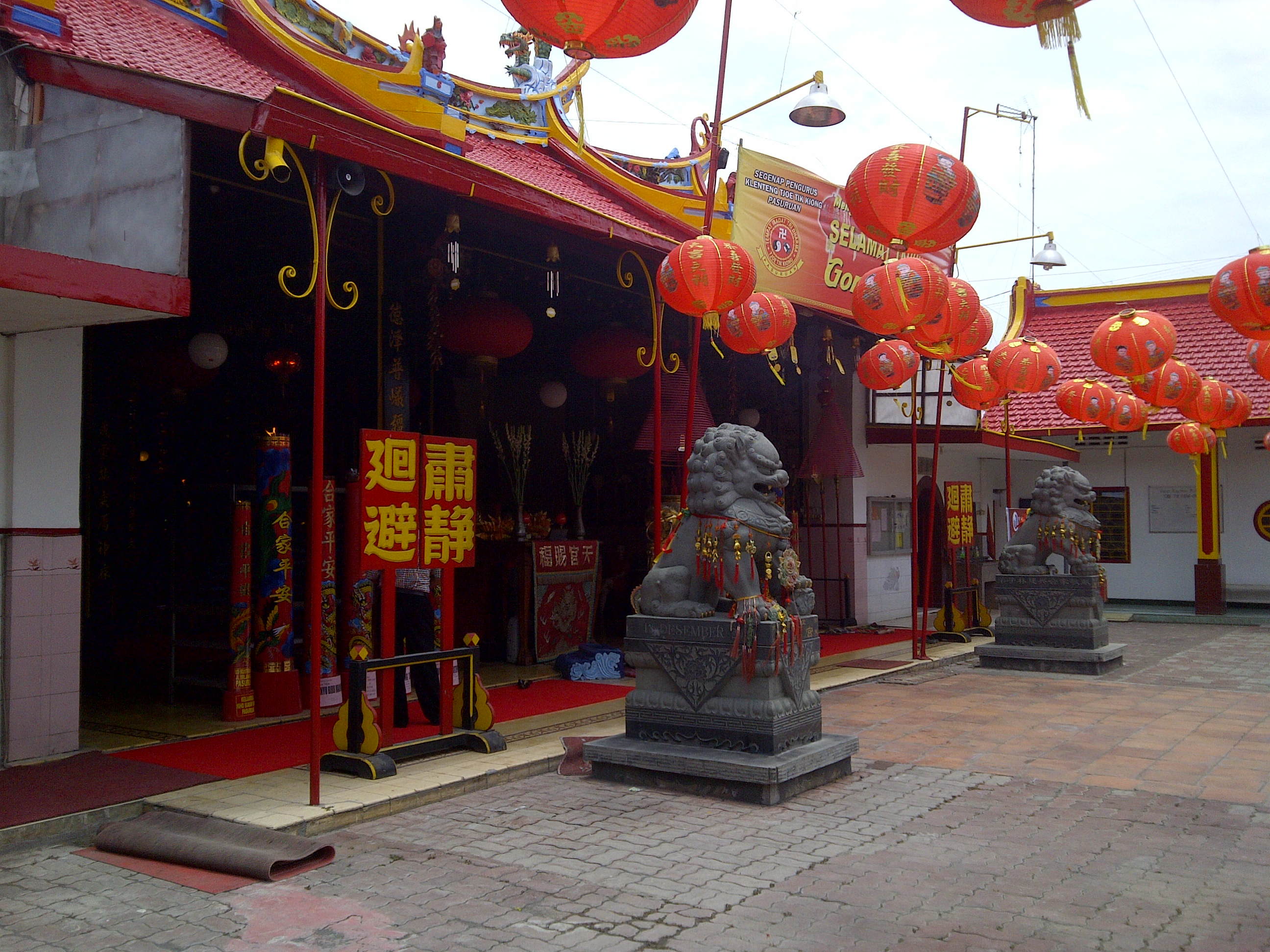 The front side of Tjoe Tik Kiong Temple, Pasuruan, East Java, Indonesia